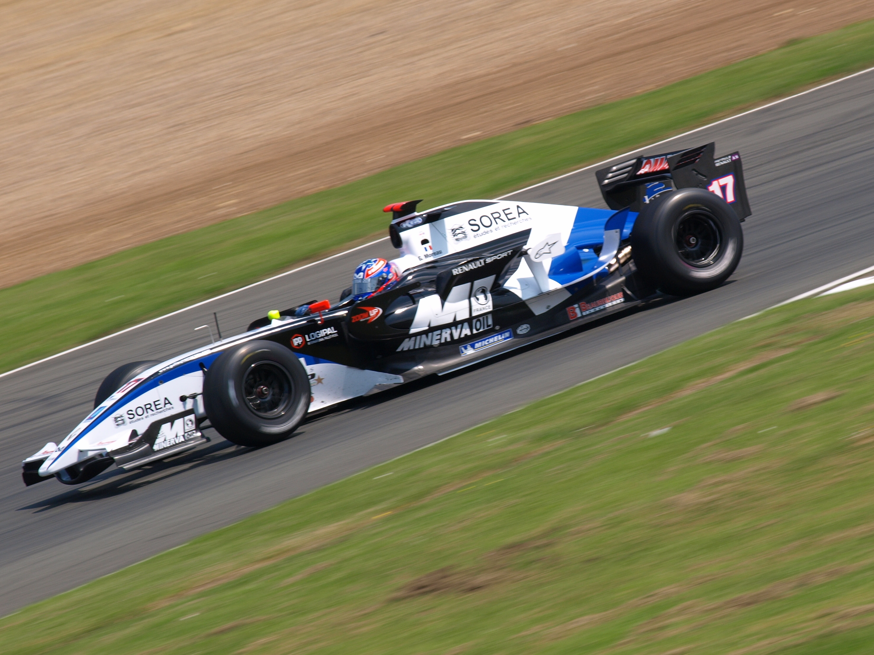 Guillaume Moreau driving for KTR at the Silverstone round of the 2008 World Series by Renault season.